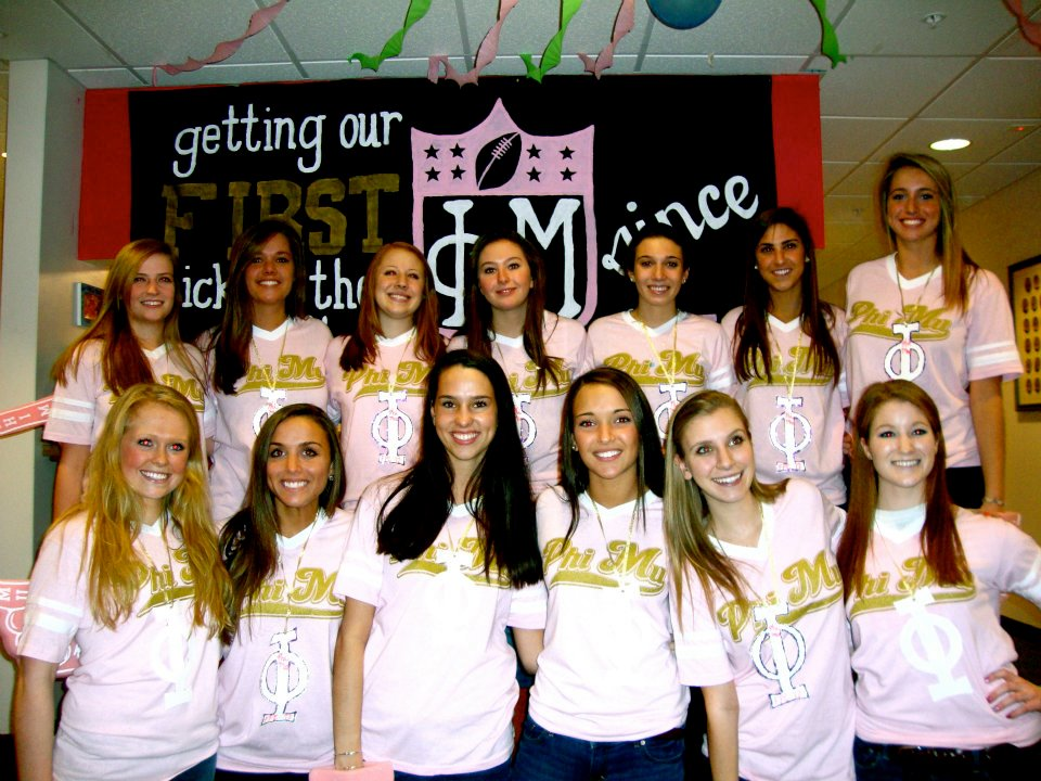 Phi Mu sorority's newest members pose with their pledge class on bids day.